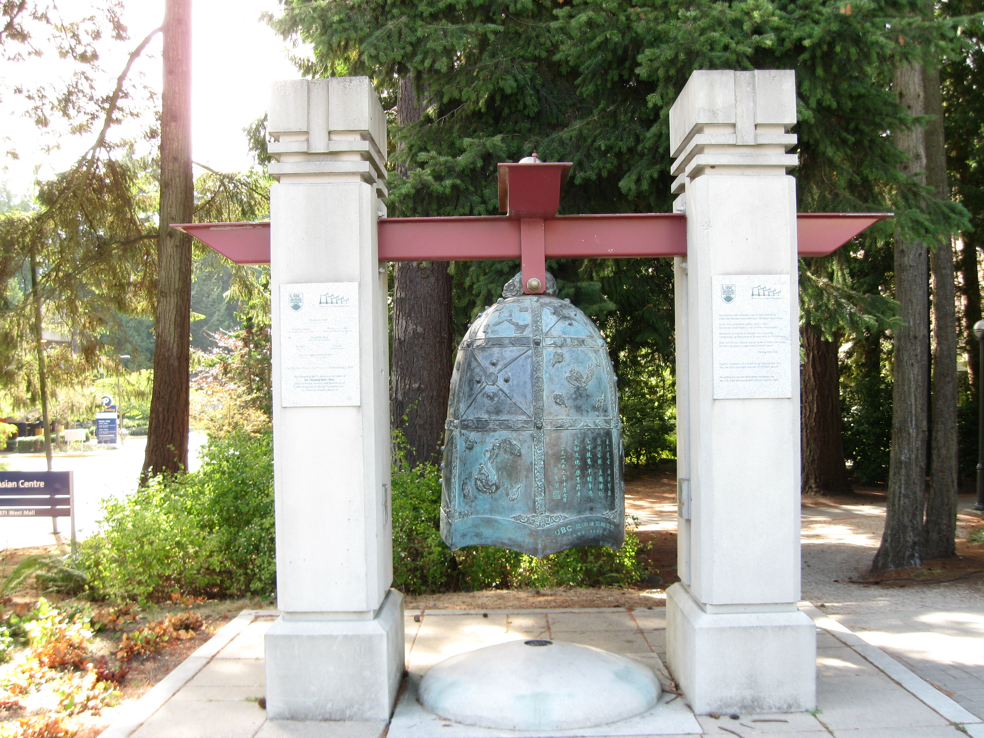 This is the C.K. Choi memorial bell which was unveiled on April 2, 2003 near the front of the UBC Asian Centre building in the campus of the University of British Columbia in Vancouver, Canada. It was dedicated in honour of Dr. Cheung-Kok Choi, a friend, mentor and benefactor of UBC and the Institute of Asian Research.